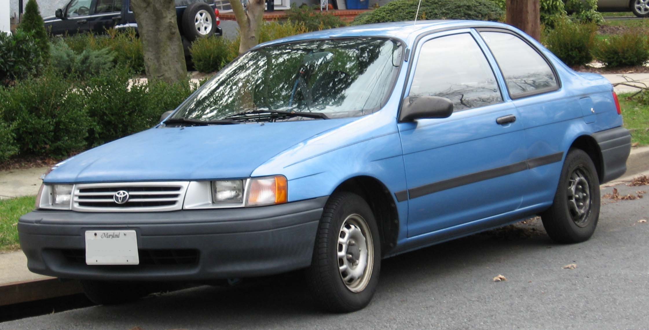 1991-1994 Toyota Tercel photographed in USA.